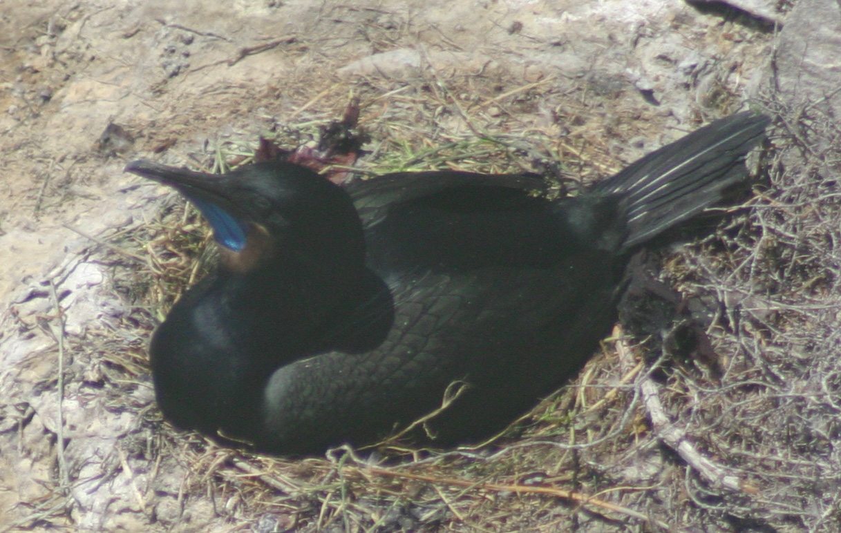 Brandt's Cormorant nesting on Alcatraz Island, San Francisco, California. Taken by myself, User:Stephen Turner, on May 7, 2006.